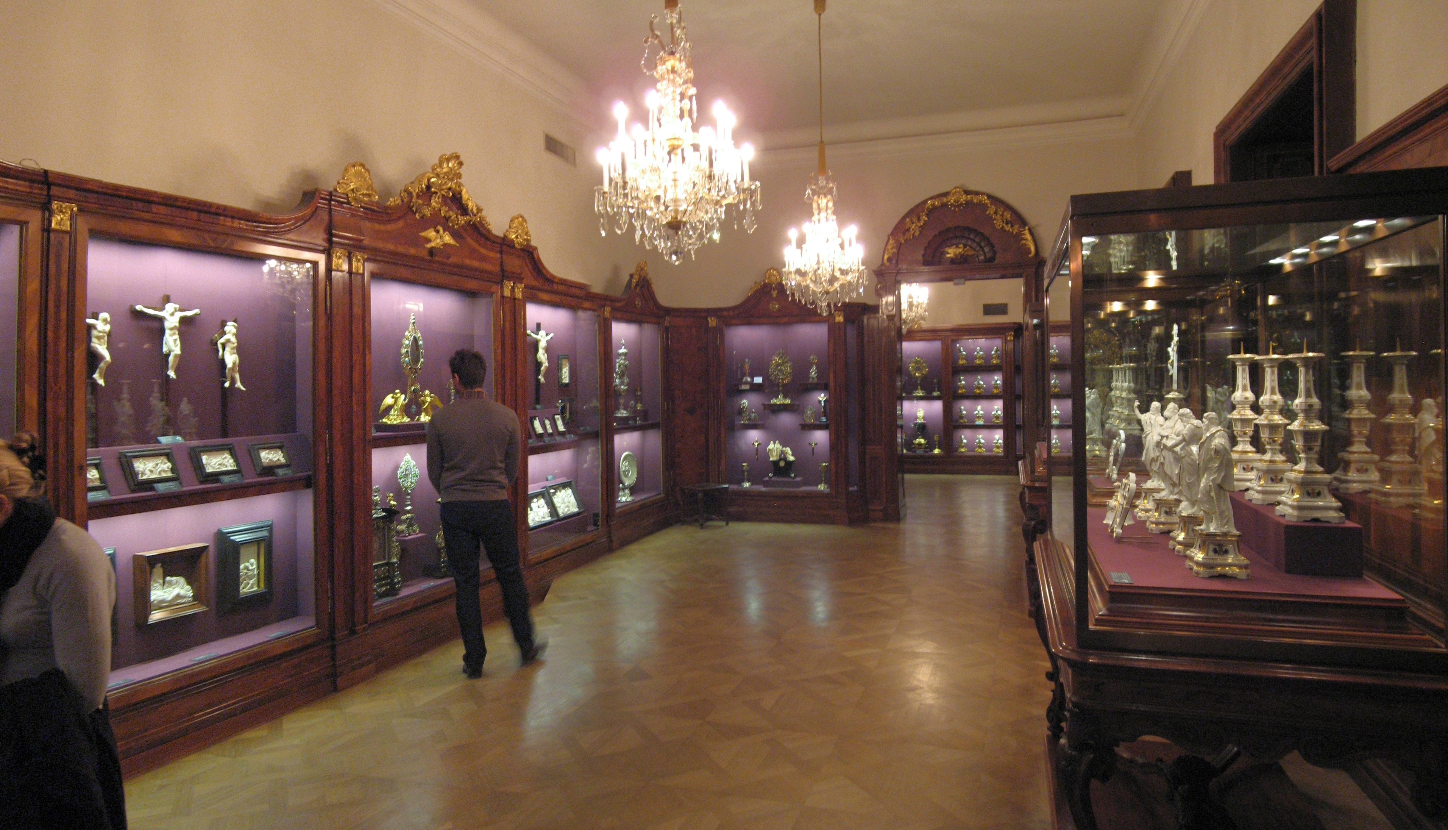 The Ecclesiastical Treasury (Geistliche Schatzkammer) in the Hofburg in Vienna.